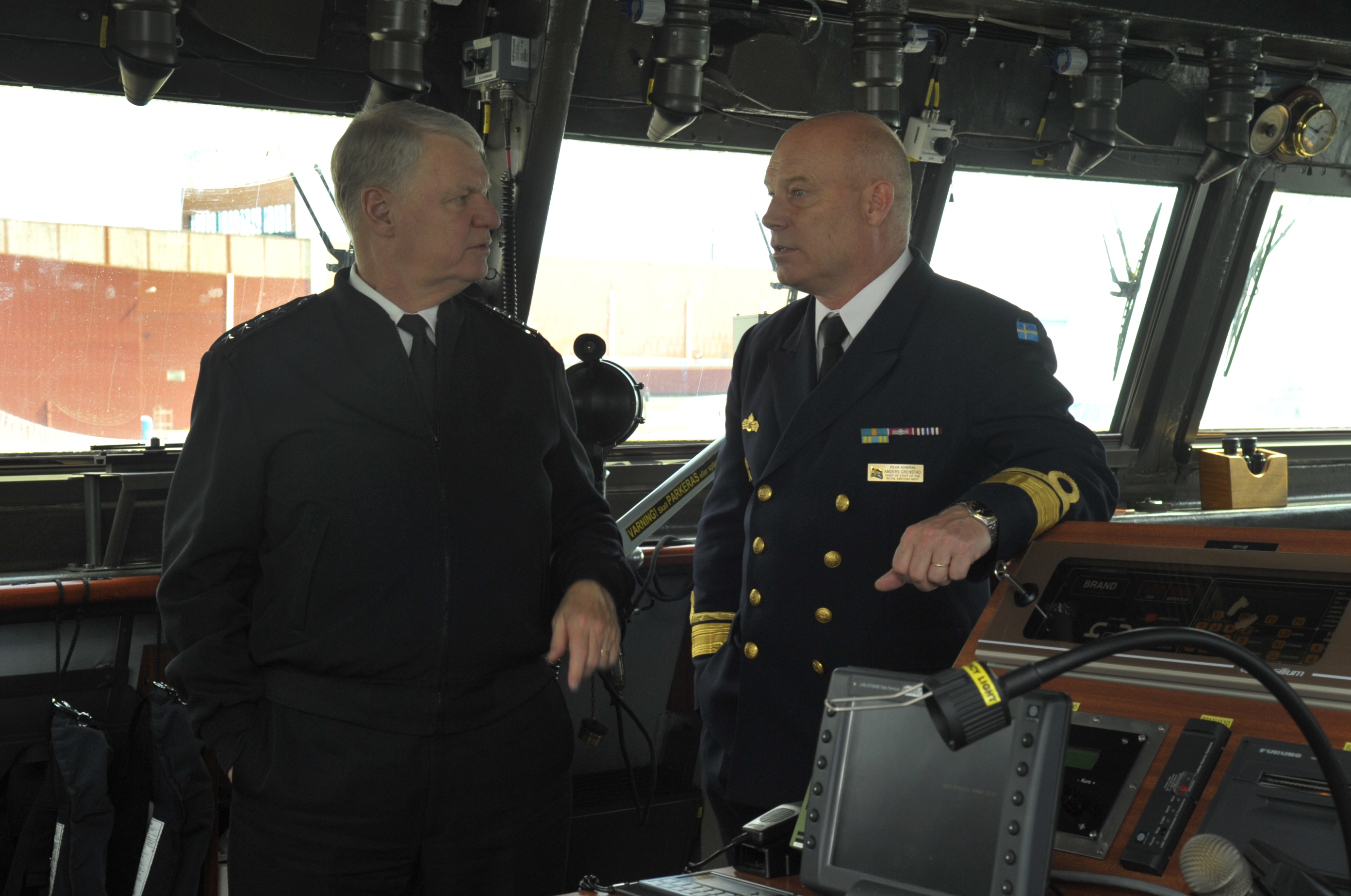 KARLSKRONA, Sweden (Aug. 19, 2010) Chief of Naval Operations (CNO) Adm. Gary Roughead, left, speaks with Rear Adm. Anders Grenstad, Chief of Staff of the Royall Swedish Navy while underway on the bridge of the Visby Corvette HSwMS NYKOPING. (U.S. Navy photo by Mass Communication Specialist 1st Class Tiffini Jones Vanderwyst/Released)